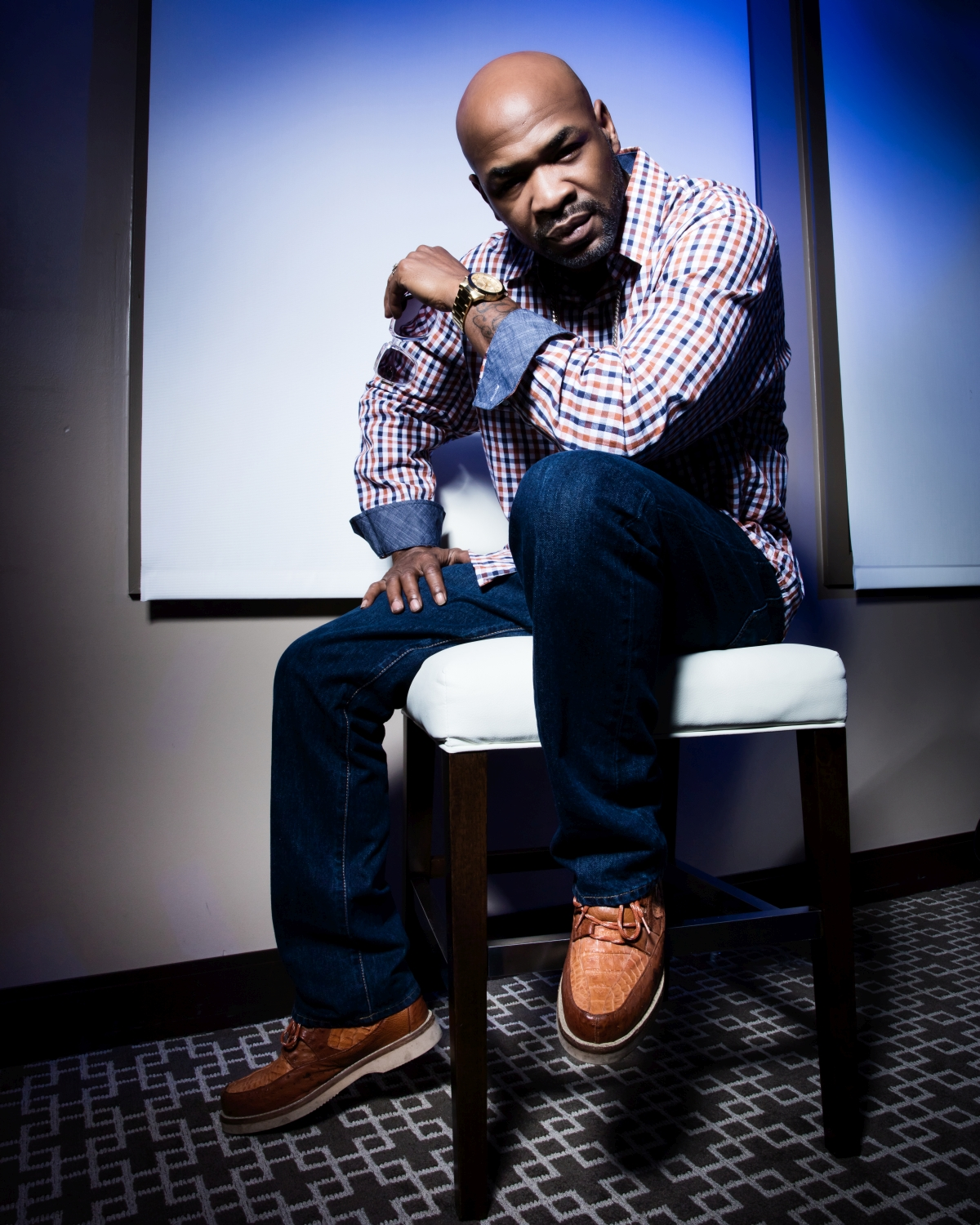 Portrait of hip-hop artist JT Money. Taken December 2016.